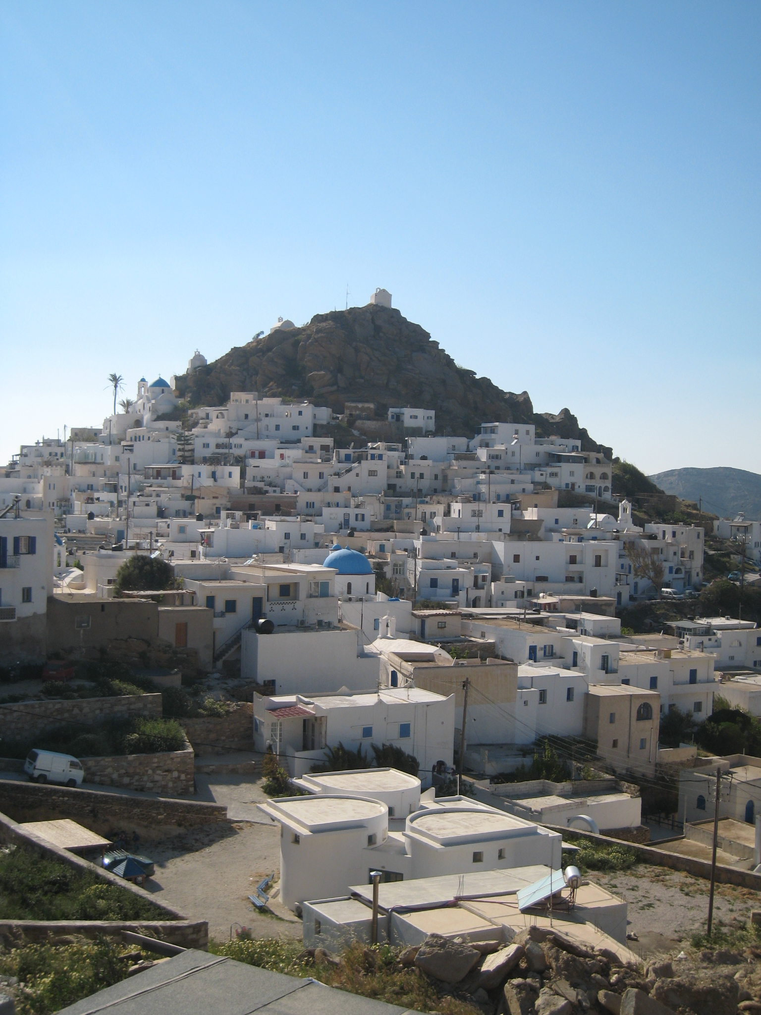 Ios island, Cyclades, Greece, the hill in the "Hora", 2007.